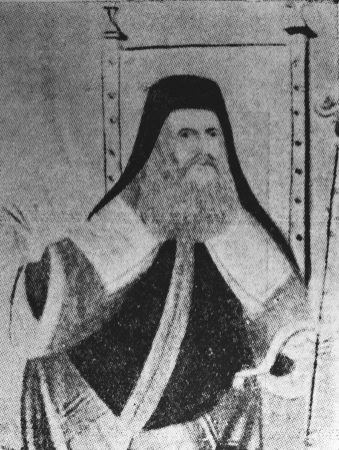 Gerasimos Vlachos (1605/1607-1685): Greek metropolitan